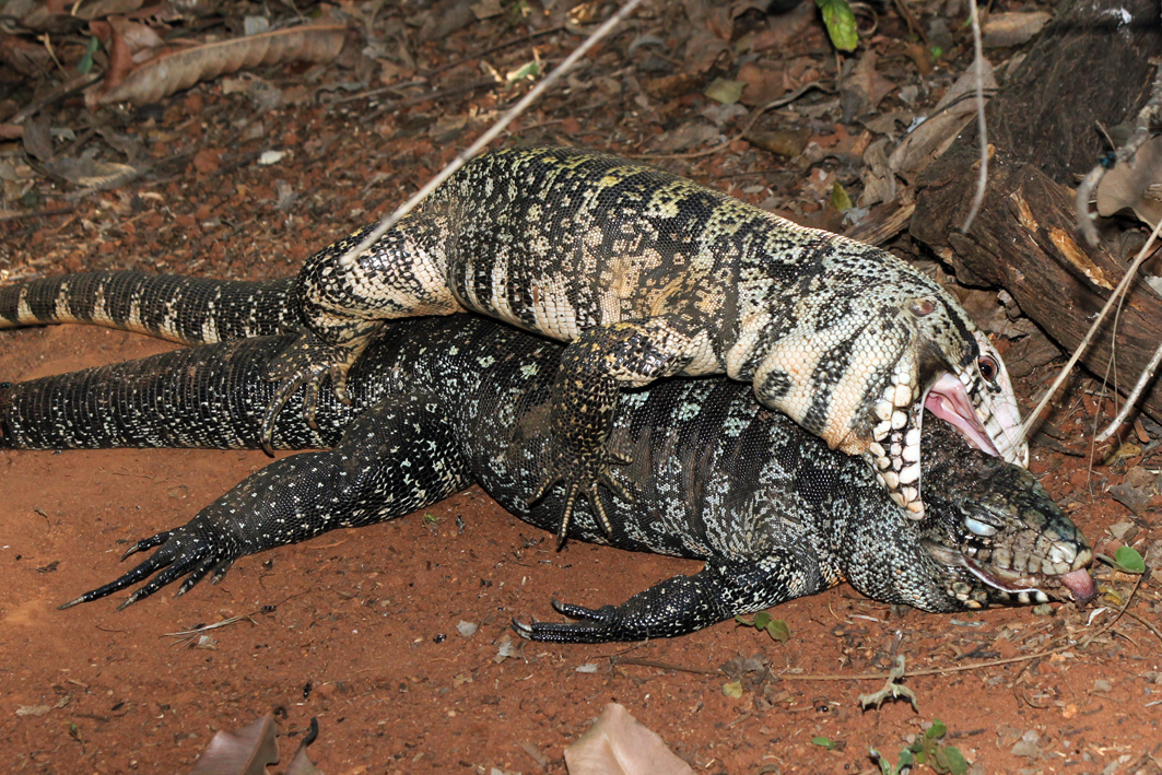 A male Argentine Black and White Tegu (Salvator merianae) from an urban park in South-eastern Brazil mounts a female that has been dead for two days and attempts to mate (necrophilia). Photo by Ivan Sazima.